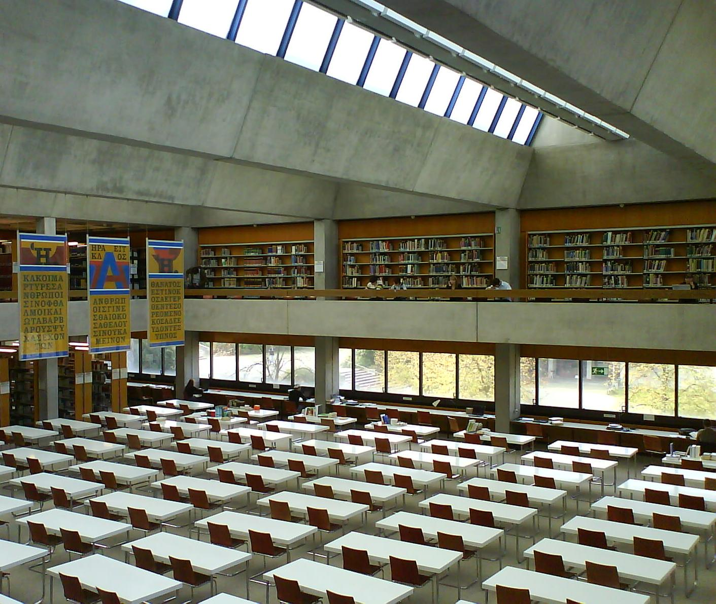 Library Philosophicum 2 of the University of Regensburg.